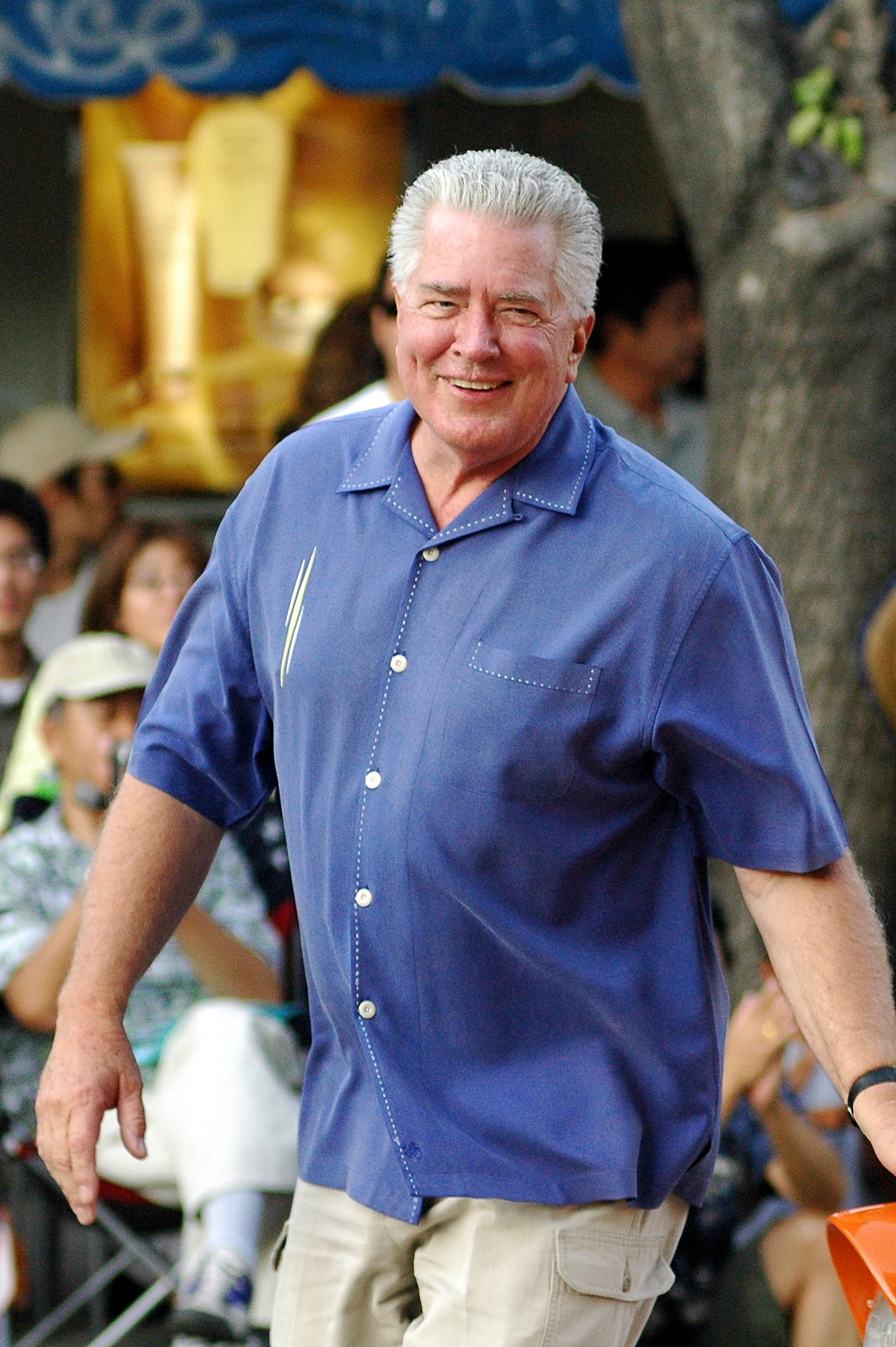 Huell Howser at the Nisei Week Grand Parade, Los Angeles, California on August 19, 2007